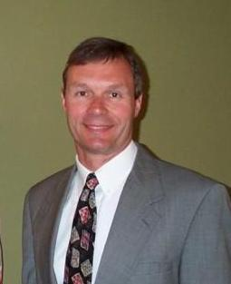 Wisconsin Governor Scott McCallum